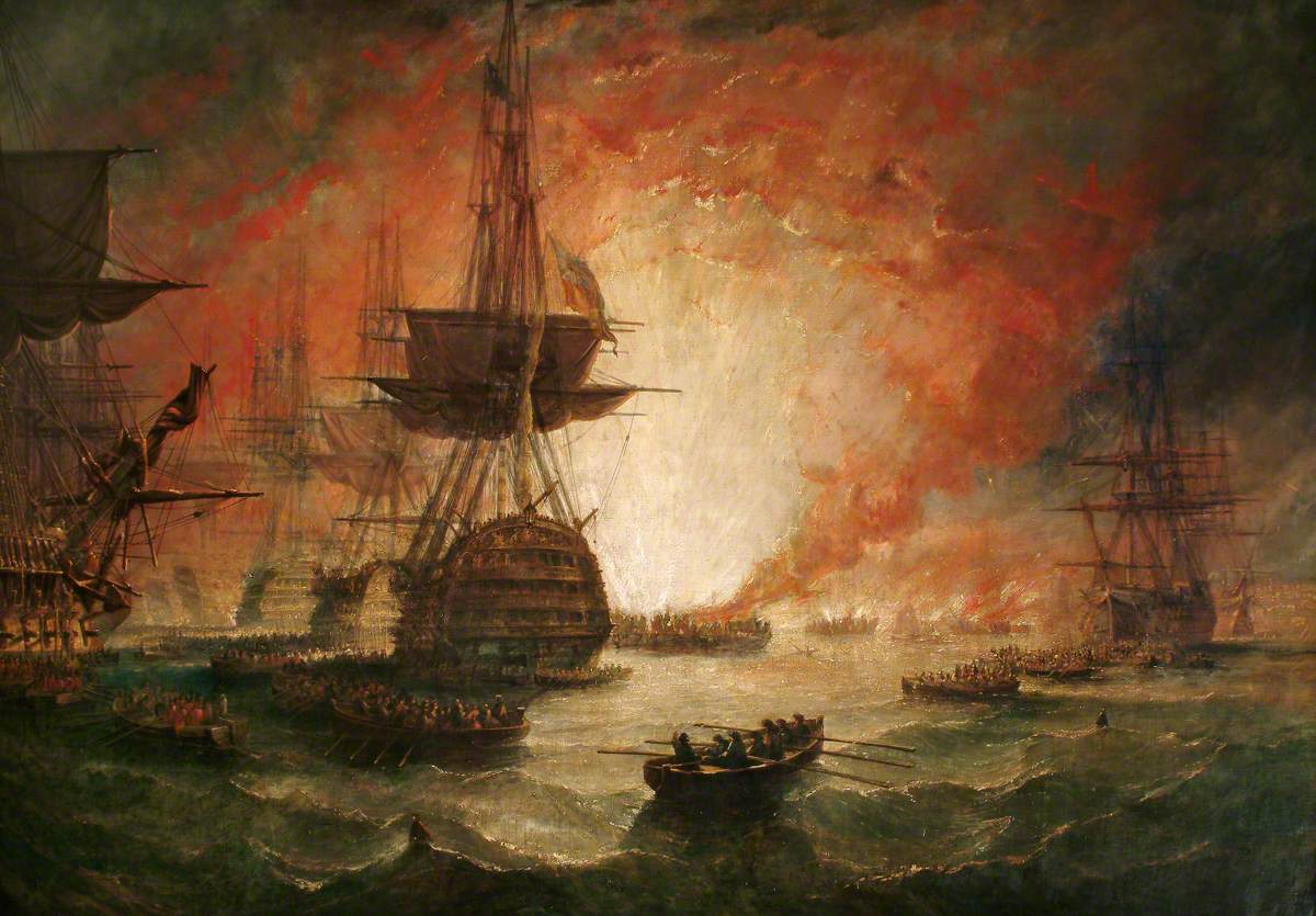 Titre original : Lord Hood at Toulon. Tableau représentant la destruction d'une partie de l'escadre de Toulon en 1793 au moment de l'évacuation de la ville par la flotte anglaise.